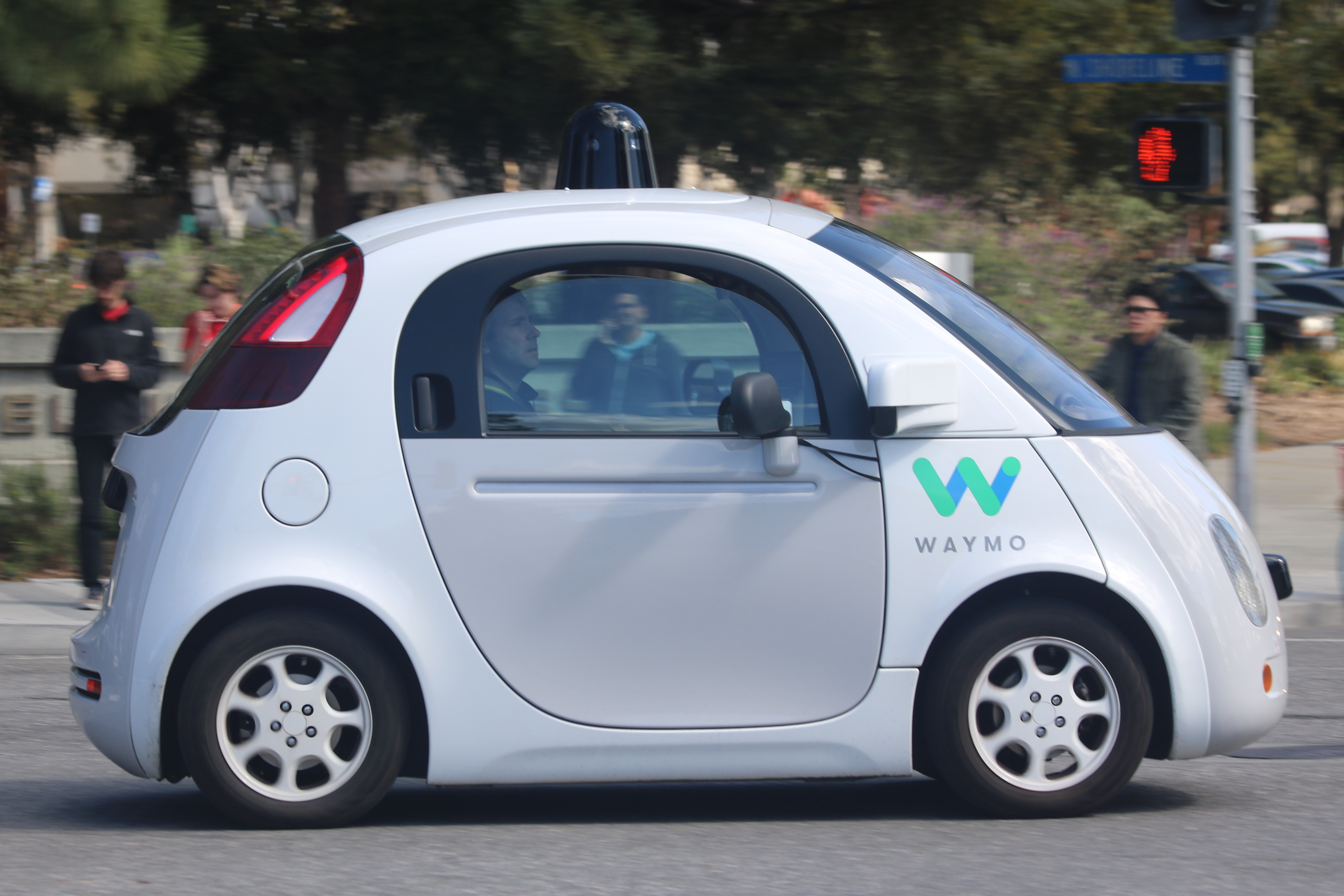 A Waymo self-driving car on the road in Mountain View, making a left turn. (Side view.)